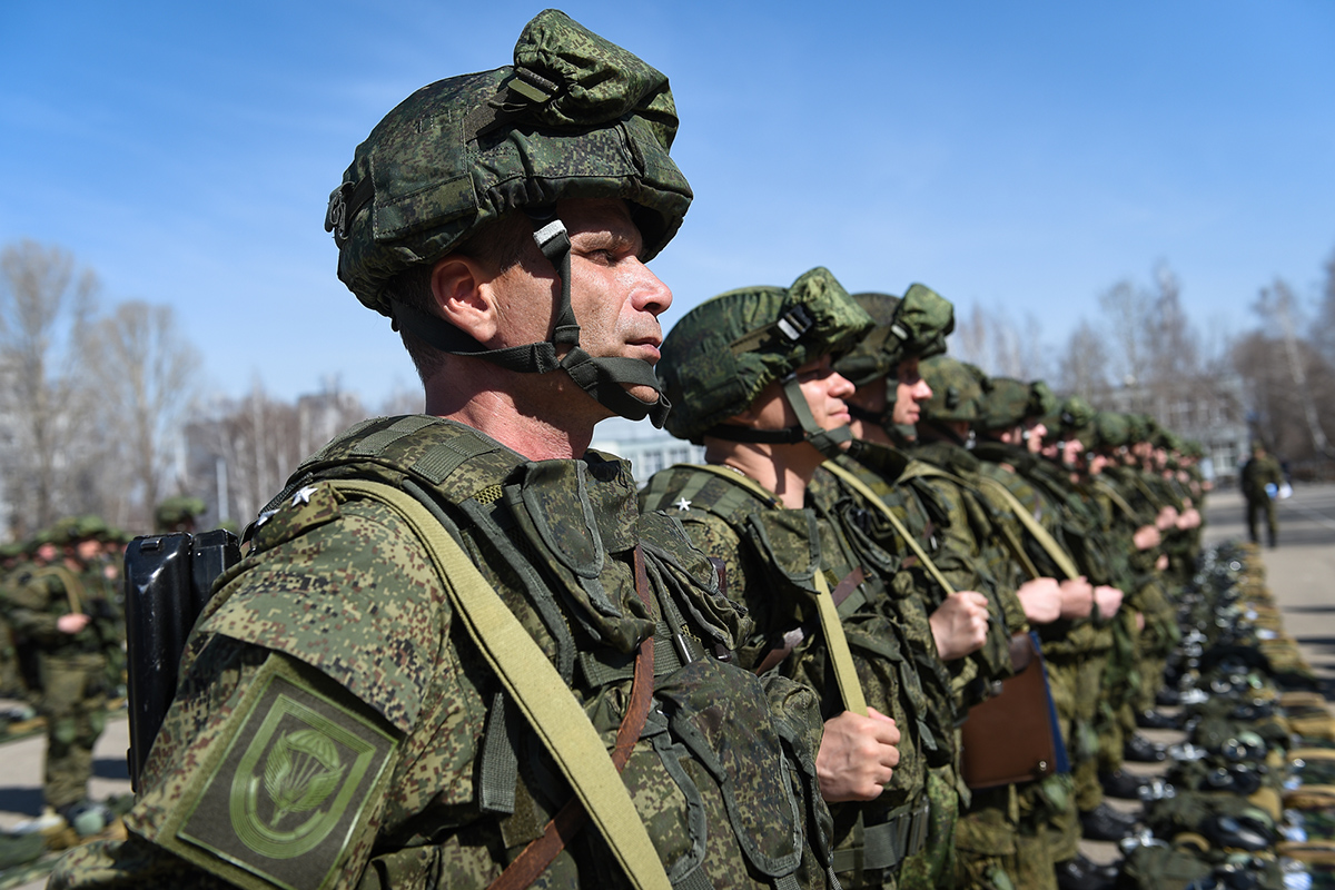 31st Separate Guards Air Assault Brigade.